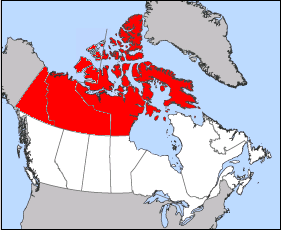 A map highlighting the three Canadian Territories under current Canadian Boundaries Map based on Image:Northwest Territories-map.png